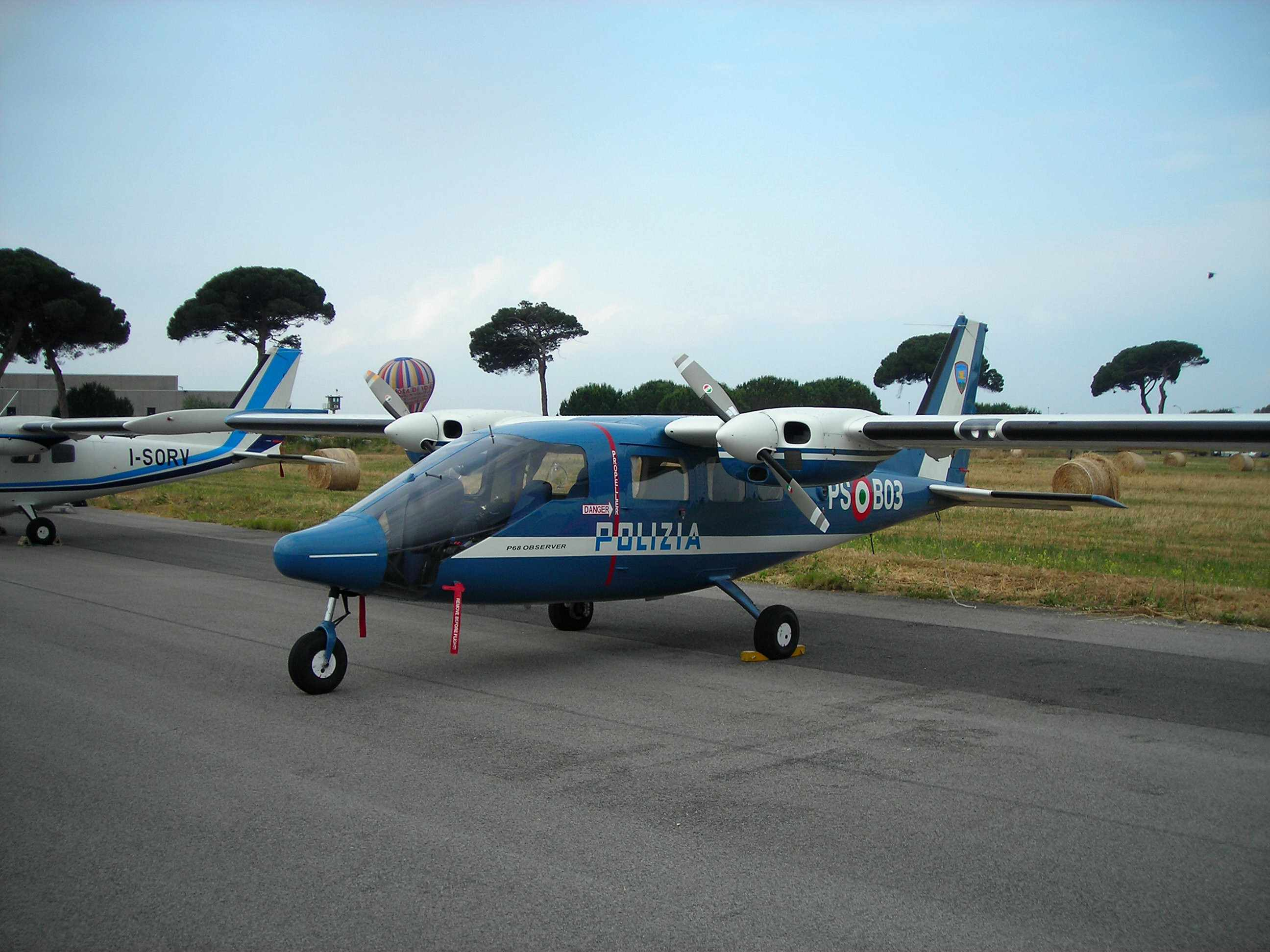 Picture taken during "Giornata Azzurra" 2007 (Italian Air Force airshow) at Pratica di Mare AFB, Italy. Partenavia P-68 of Italian Police